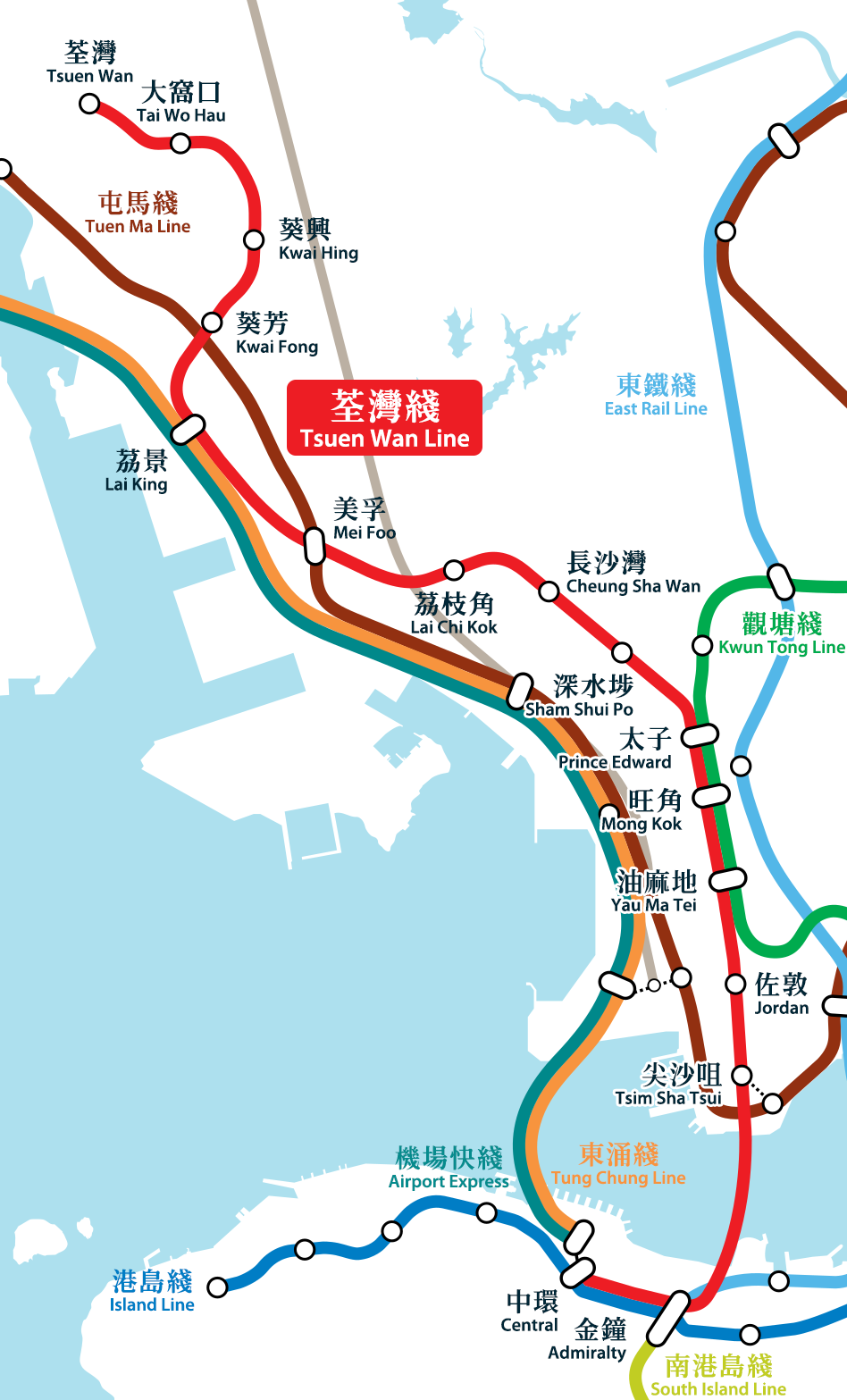 MTR Tsuen Wan Line Geograpical Map